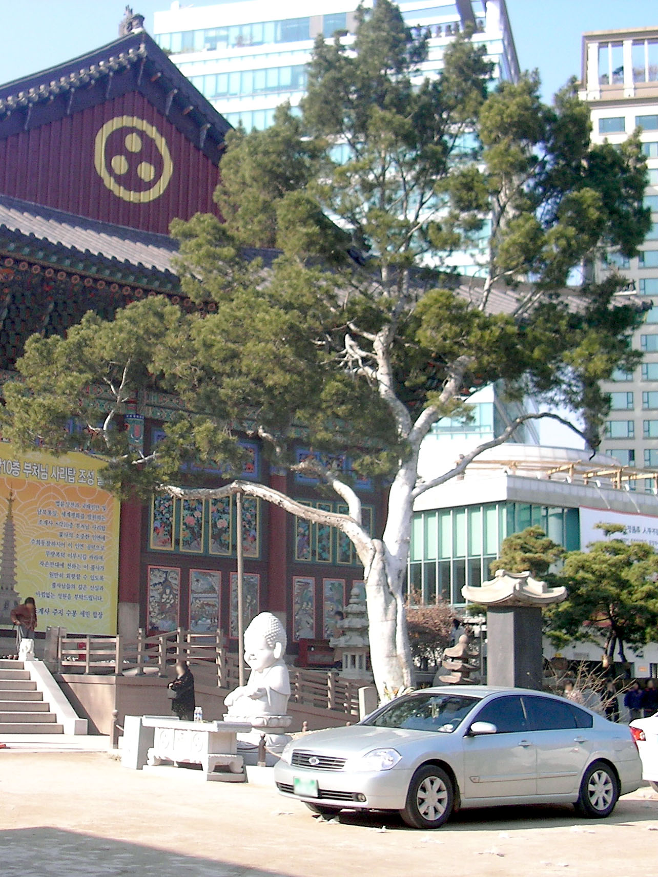 Lacebark Pine of Susong-dong, South Korea Natural Monument No.9 (서울 수송동의 백송)